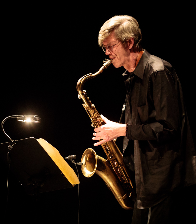 Bob Malach at stage with Mike Stern and Dave Weckl band at Cosmopolite in Soria Moria. The concert took place on 11. November 2017 and was part of Cosmopolite's 25 year jubilee week.Lineup: Mike Stern (guitar), Dave Weckl (drums), Tom Kennedy (bass guitar) and Bob Malach (saxophone).